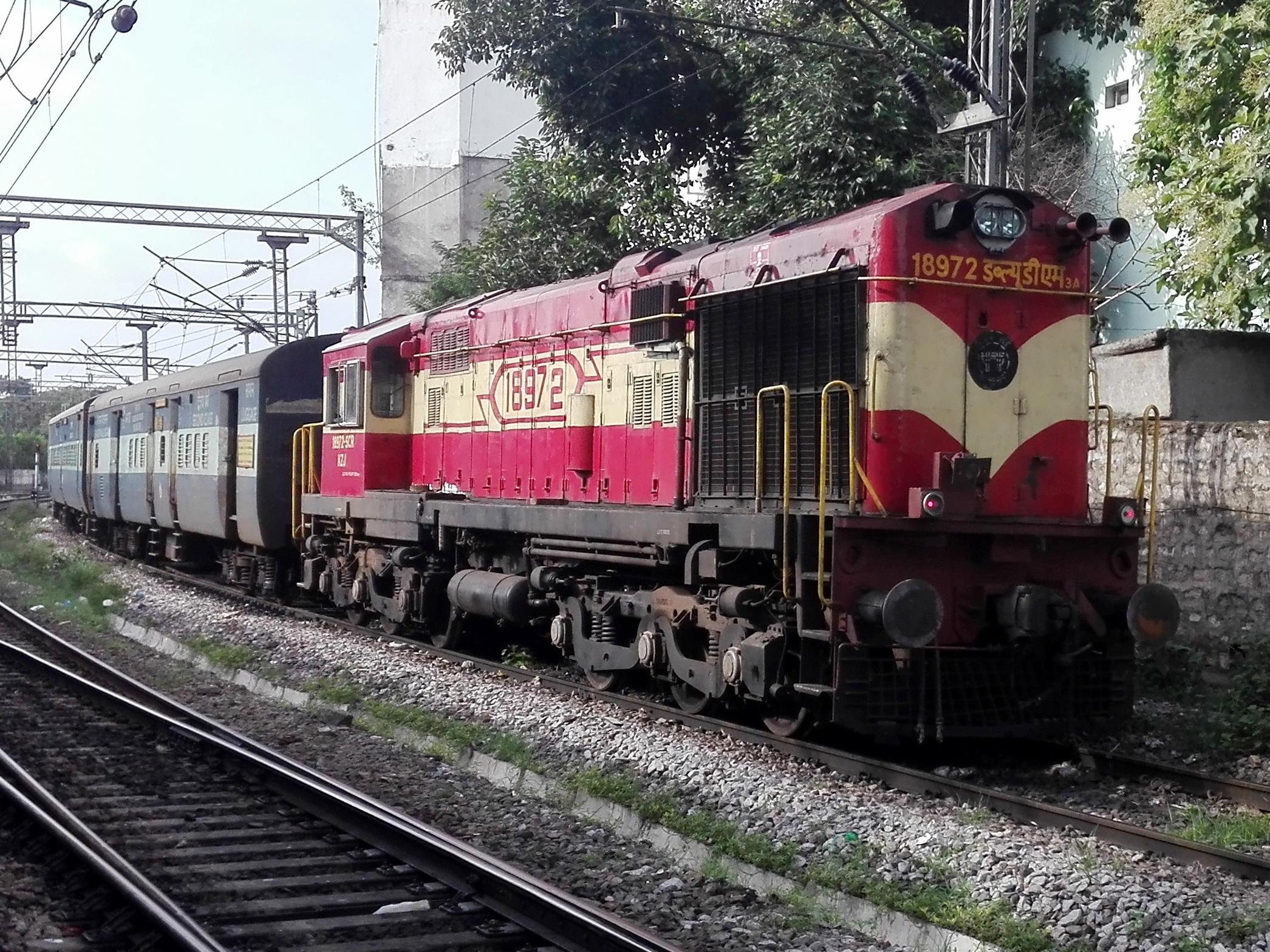 (Hyderabad - Mumbai) Express at Hyderabad Railway station with a WDM 3A Locomotive